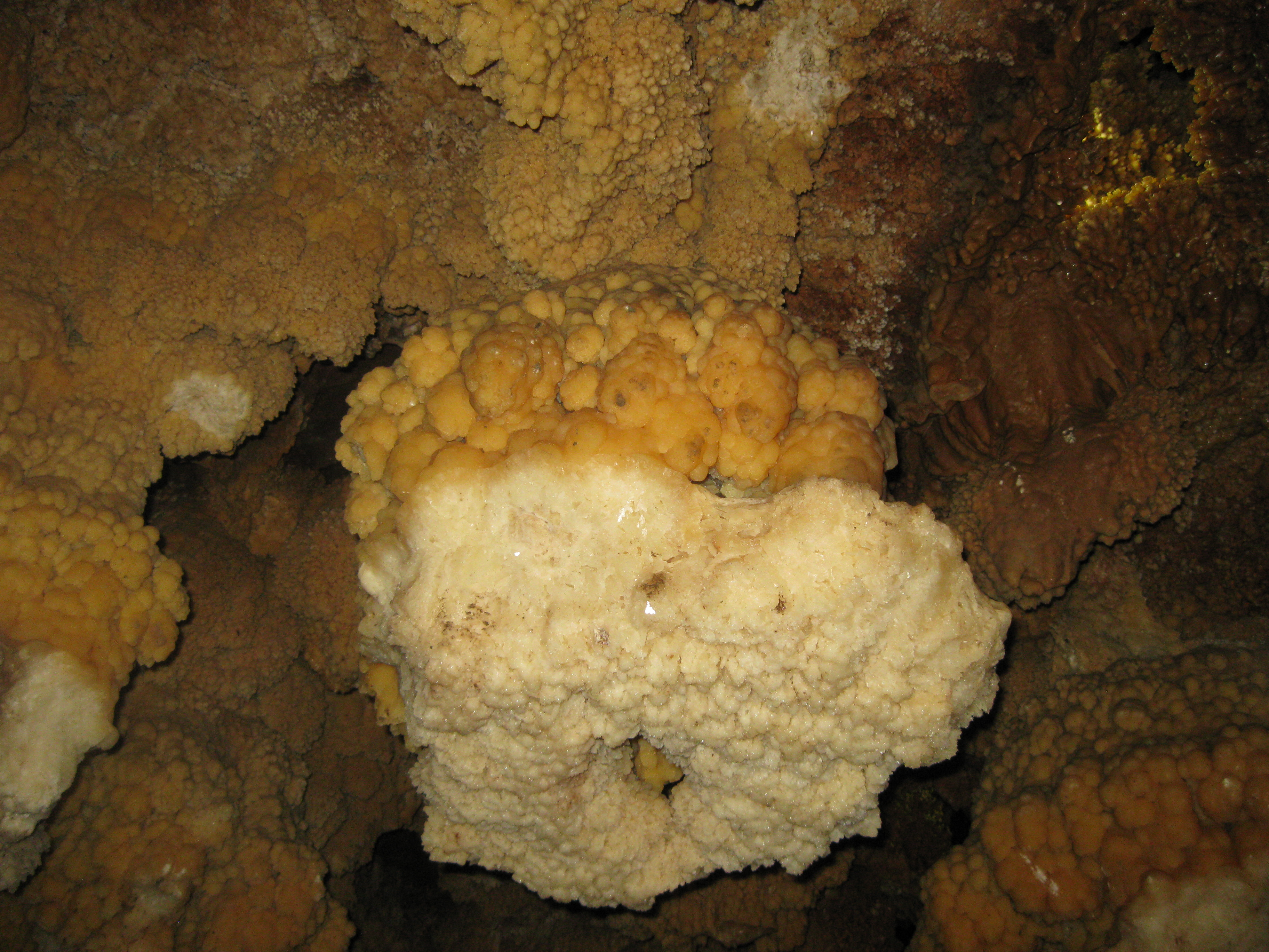 Ali-Sadr Cave, Hamedan Province, Iran